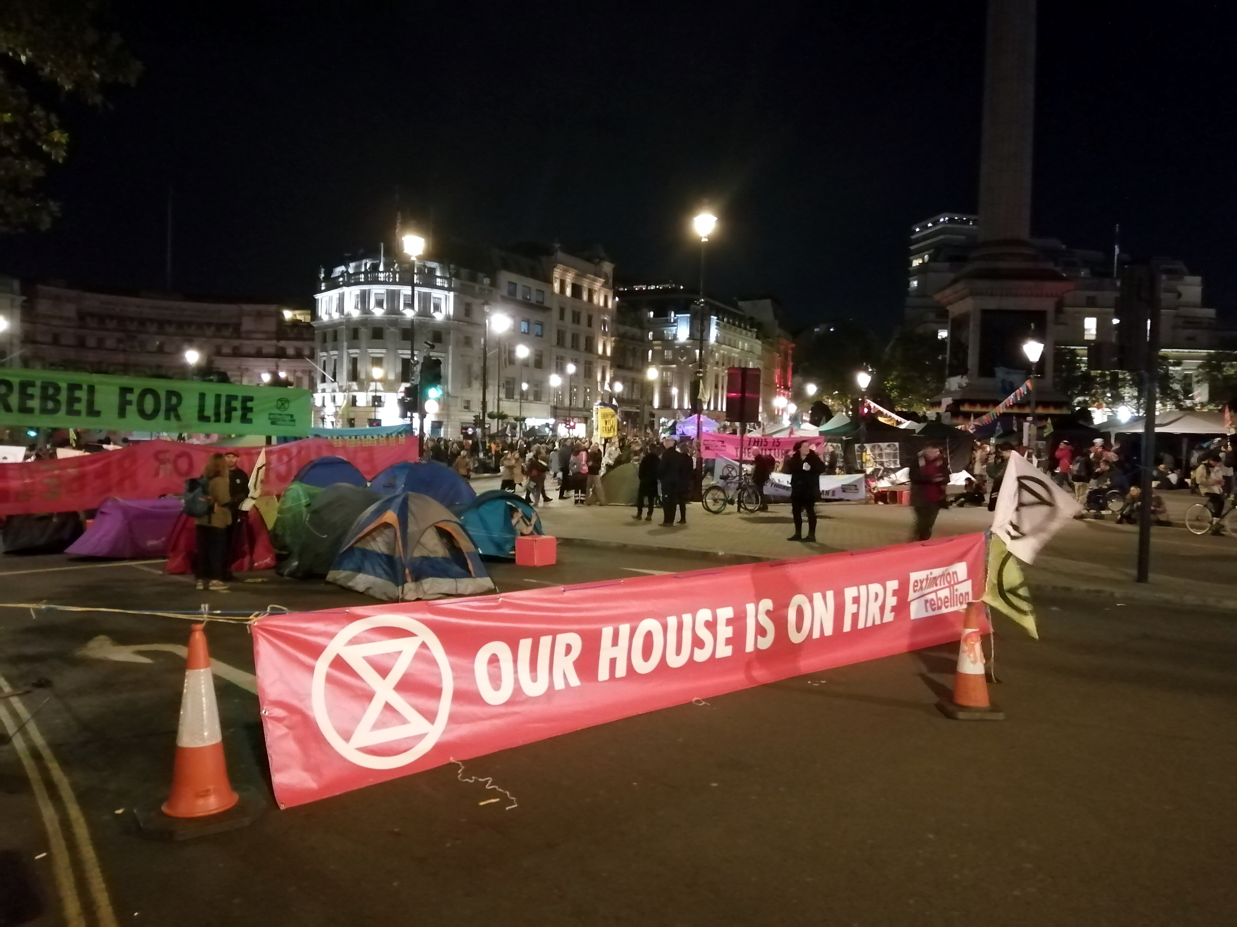 Extinction Rebellion banner "Our house is on fire", Extinction Rebellion in Trafalgar Square, 9 October 2019.